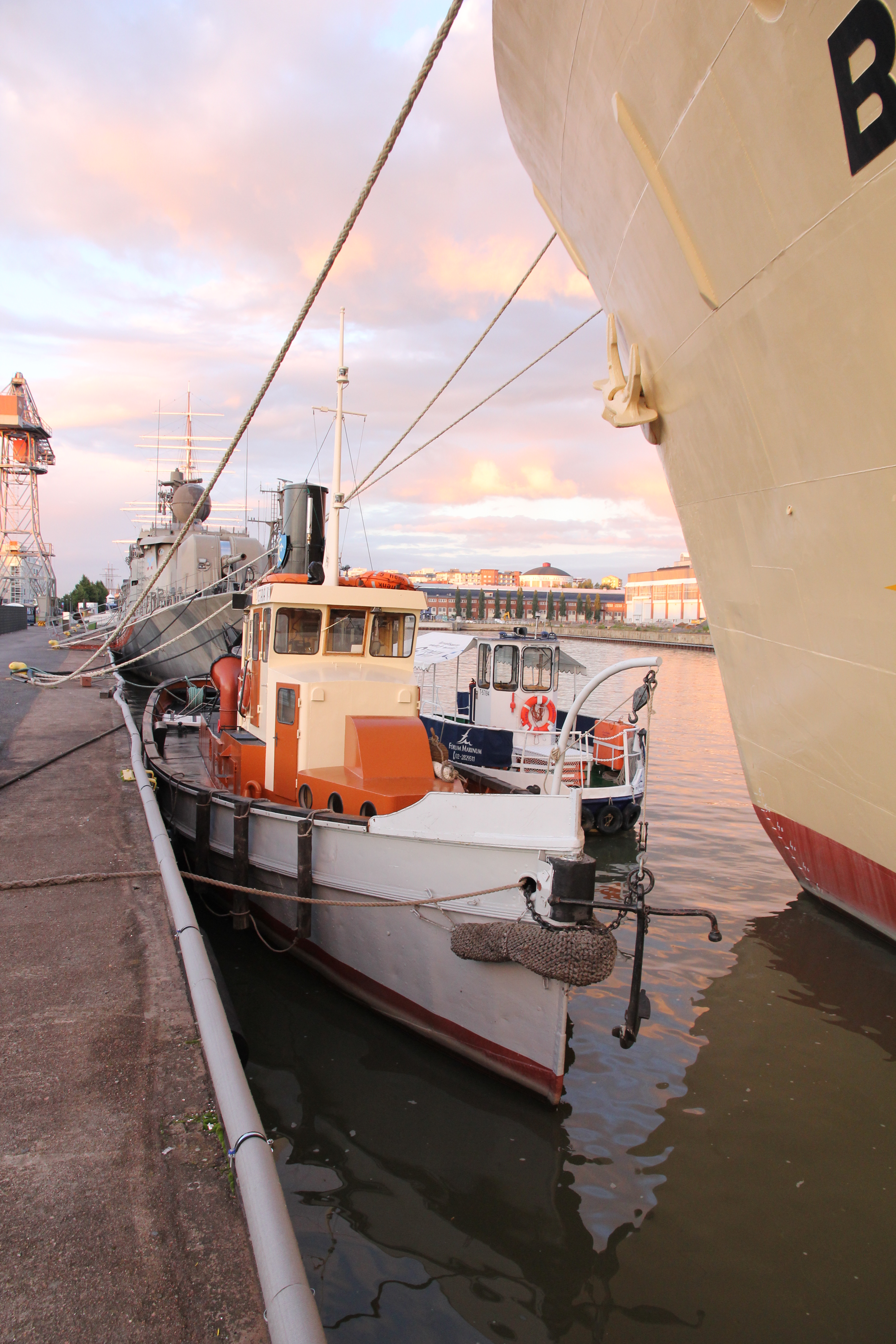 Forum Marinum museum steam tug Vetäjä V in Aura river next to Bore, Pikku-Föri and Karjala.